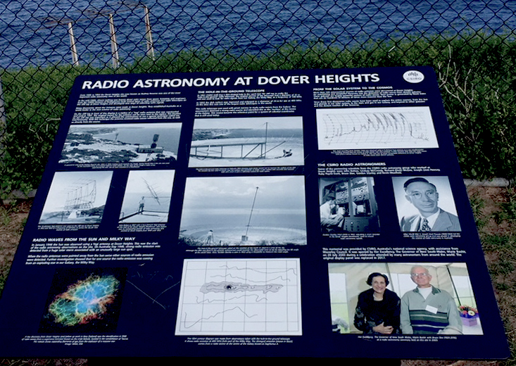 This plaque recalls the important history of Radio Astronomy in Rodney Reserve